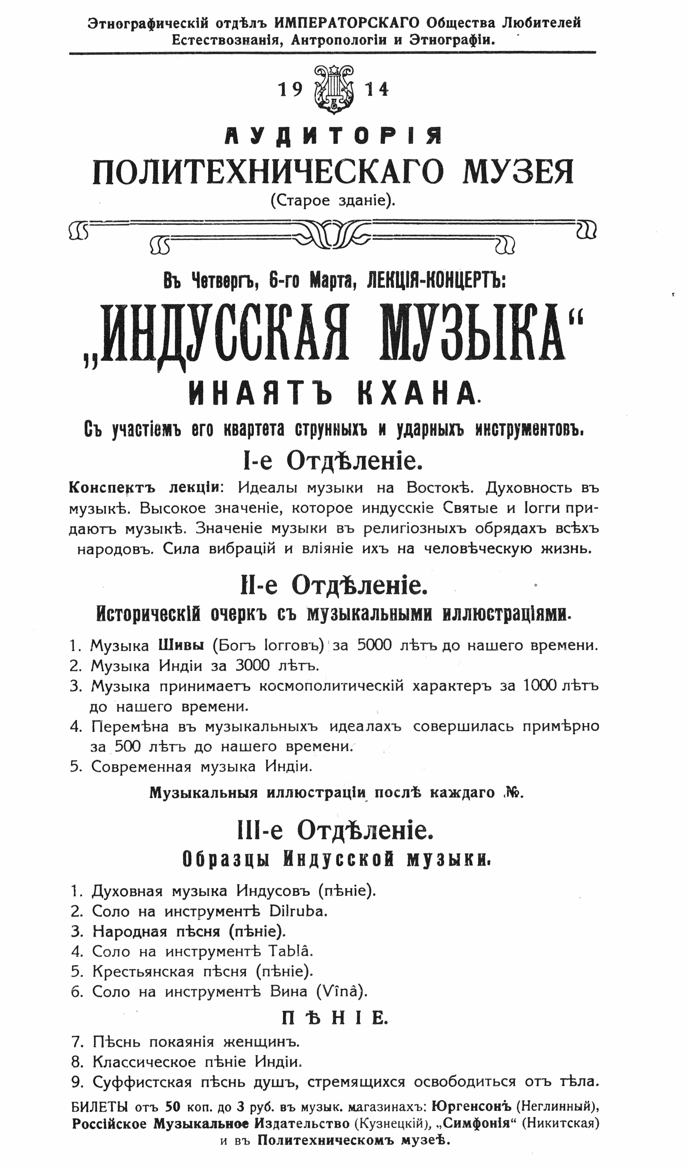 Inayat Khan concert program in Moscow